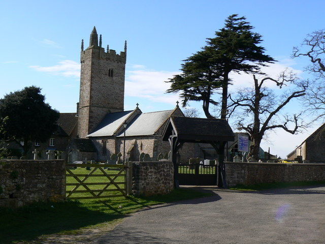 St Mary's Church, Rogiet